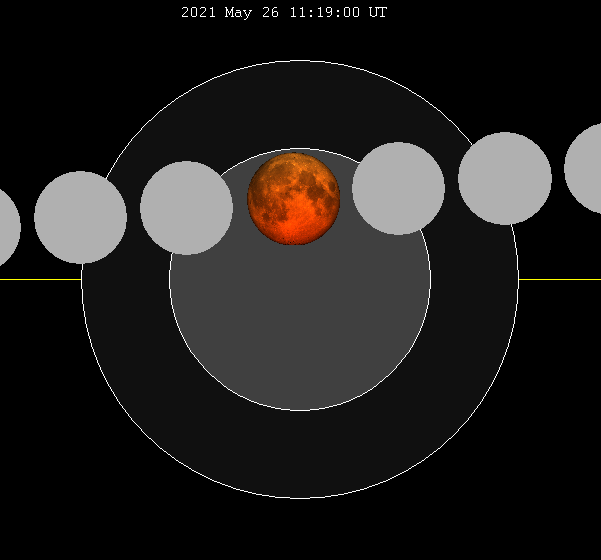 May 2021 lunar eclipse chart of moon's total lunar eclipse path through the earth's shadow.